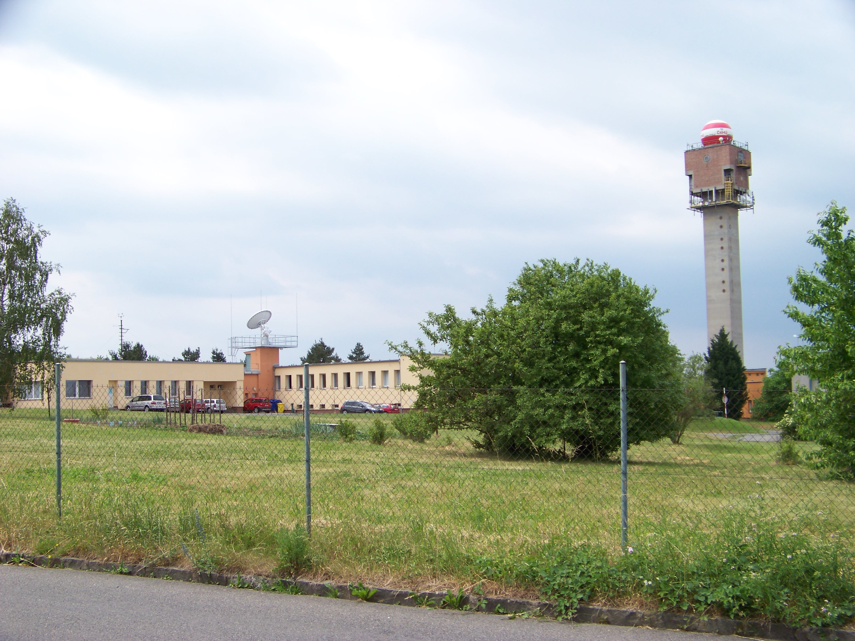 Prague-Kamýk, the Czech Republic. A meteorological observatory, seen from Zelenkova street.